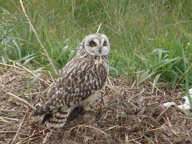 A Short-eared Owl in Lincolnshire, England.